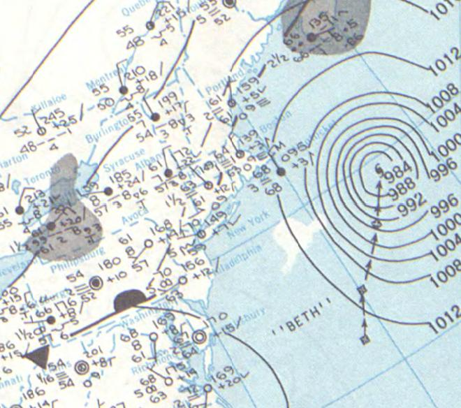 Surface weather analysis of Hurricane Beth on 15 August 1971.